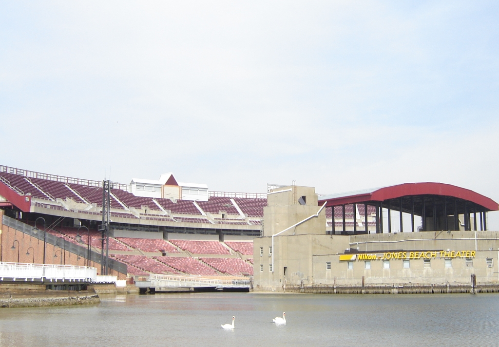 The Nikon at Jones Beach Theater is located at Jones Beach State Park in Wantagh, New York, USA.